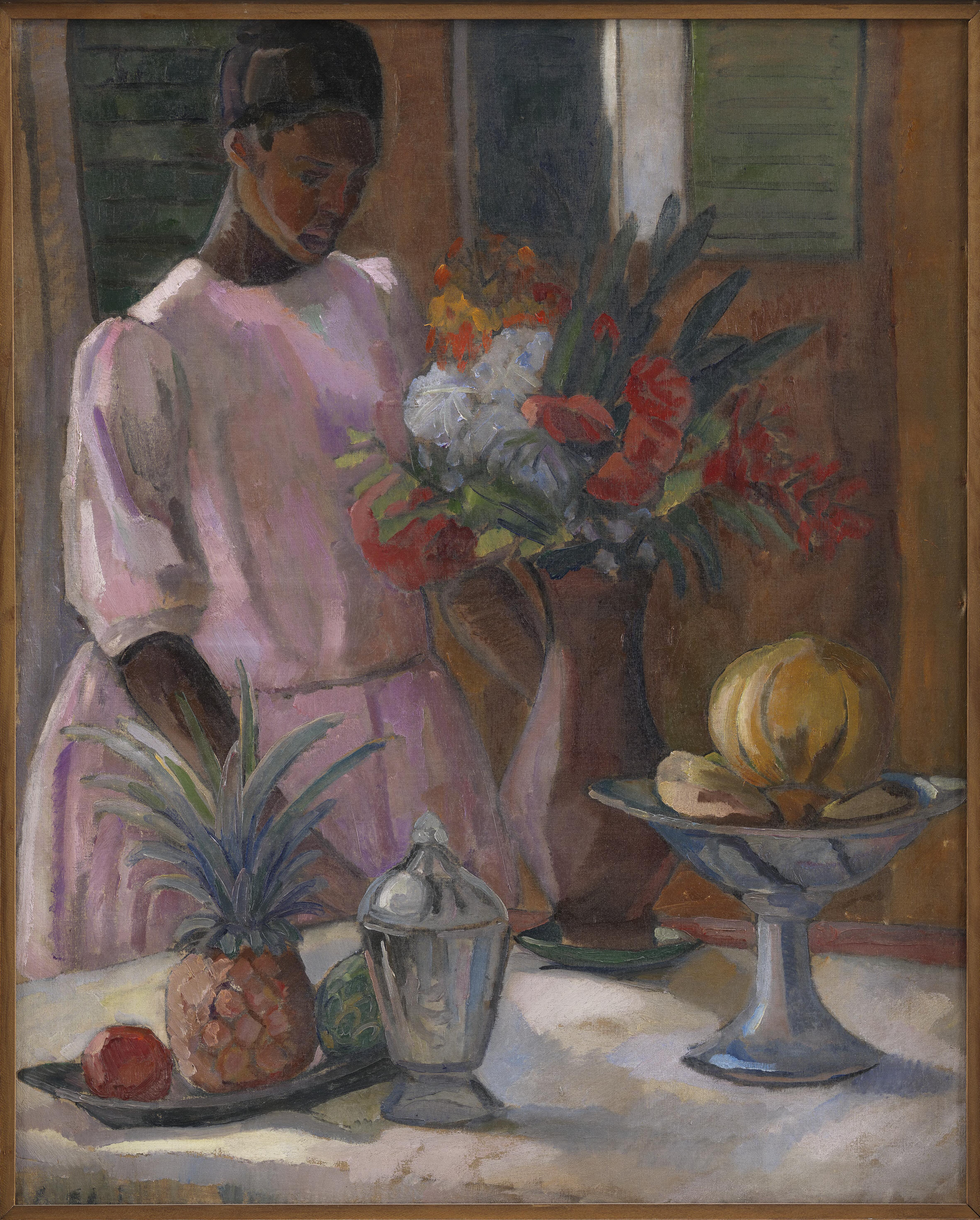 Rose Laying the Table by Astrid Holm, 1914, oil on canvas, 97.7 x 79 cm., National Gallery of Denmark